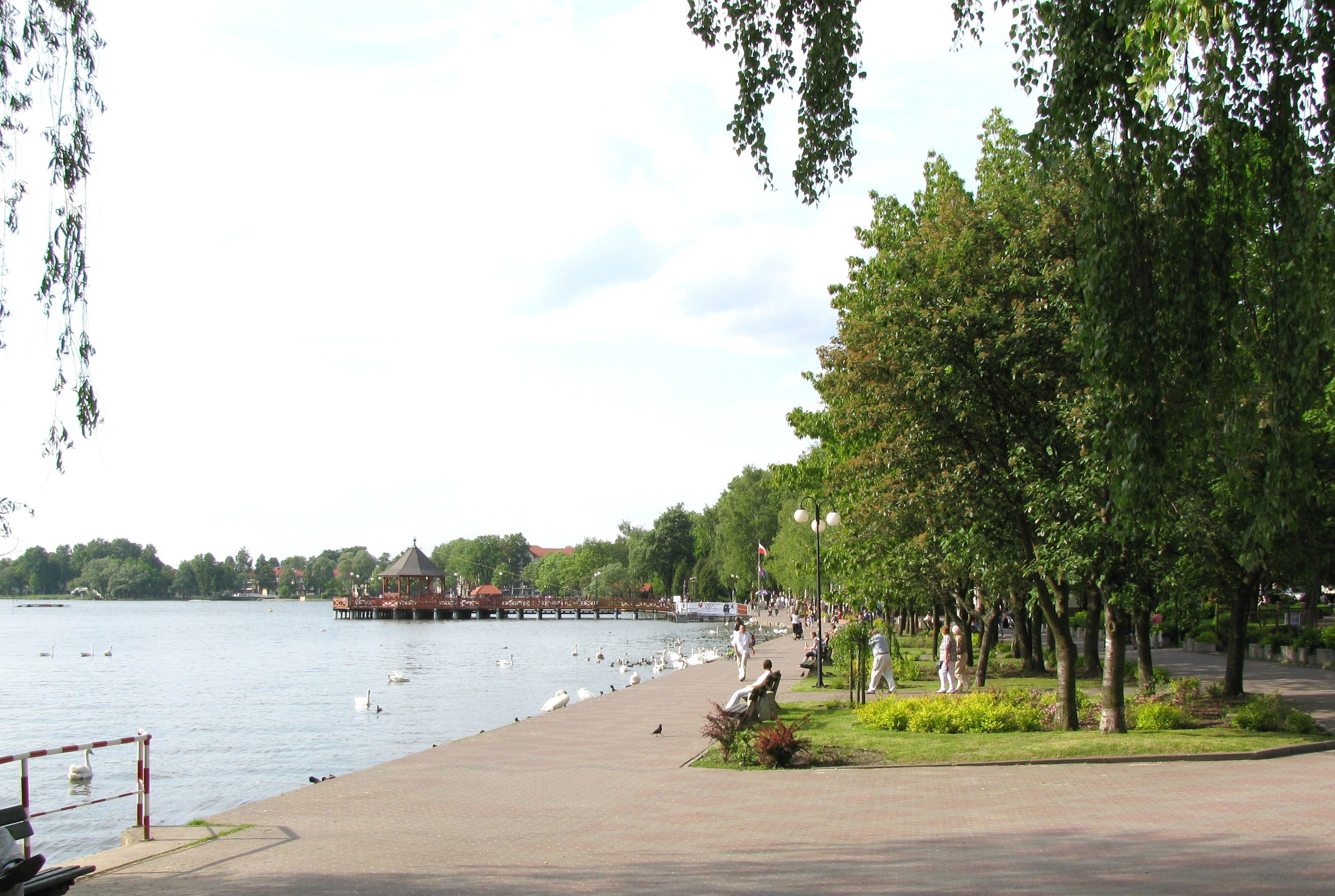 The Boulevard in Ostróda (Poland).